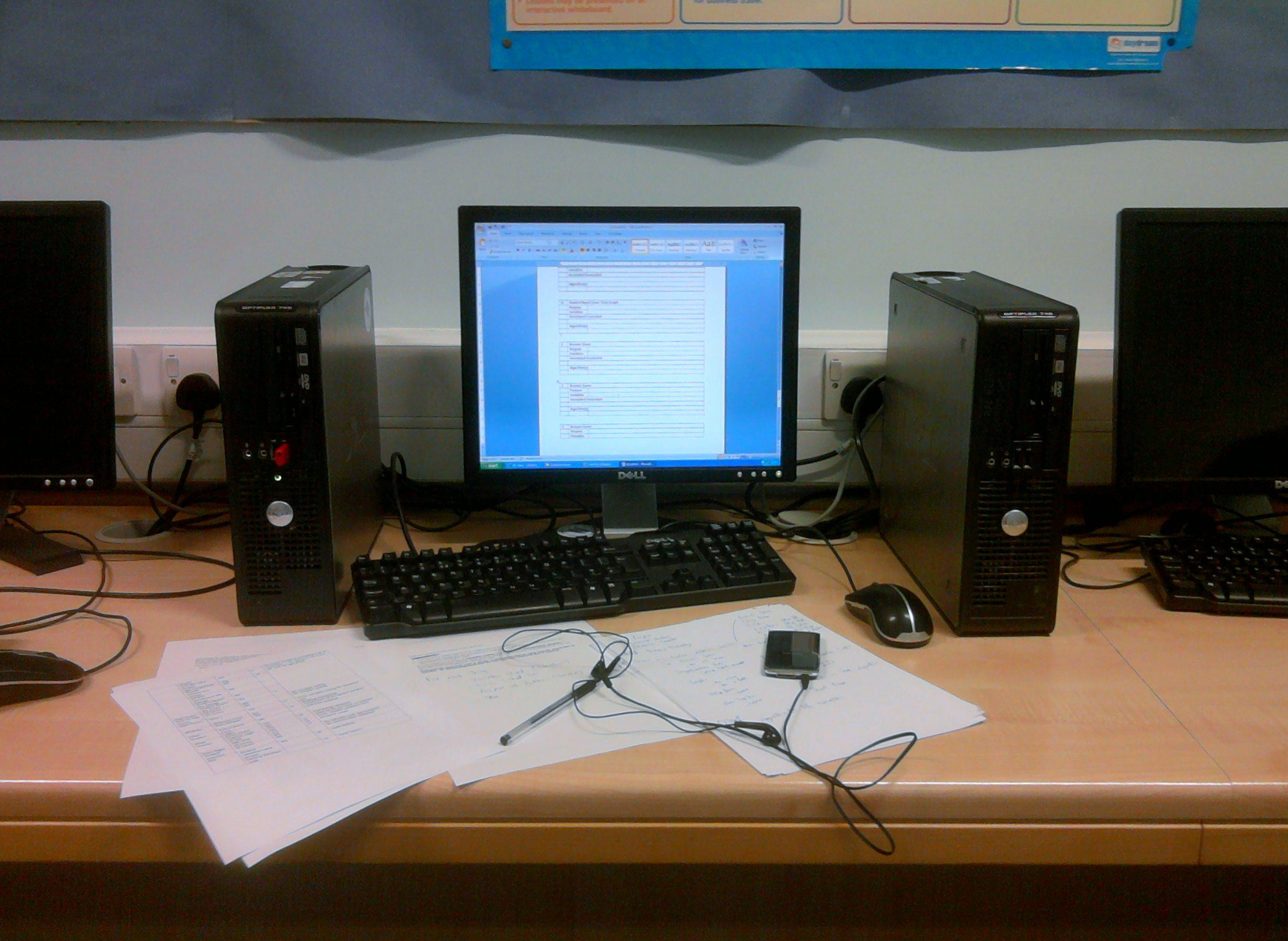 Jakob_Lewis_User_Img_Busy_Desk